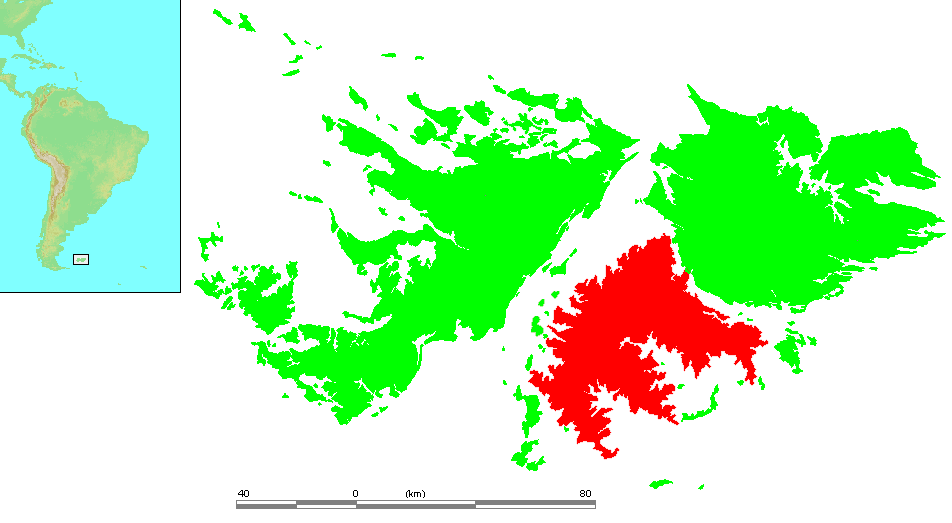 800px-Falkland Islands - Lafonia.PNG Category:Falkland Islands